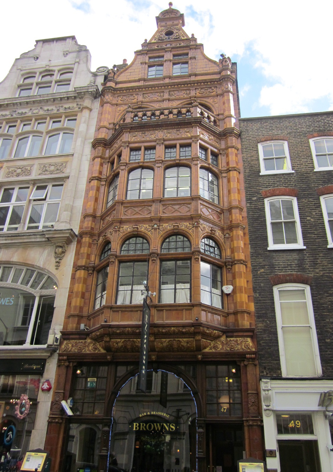 Browns Bar & Brasserie, 47 Maddox Street, Mayfair London